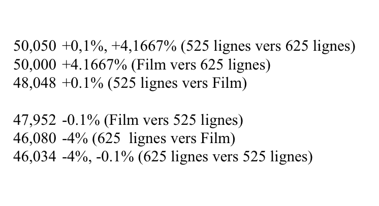 pull up & pull down